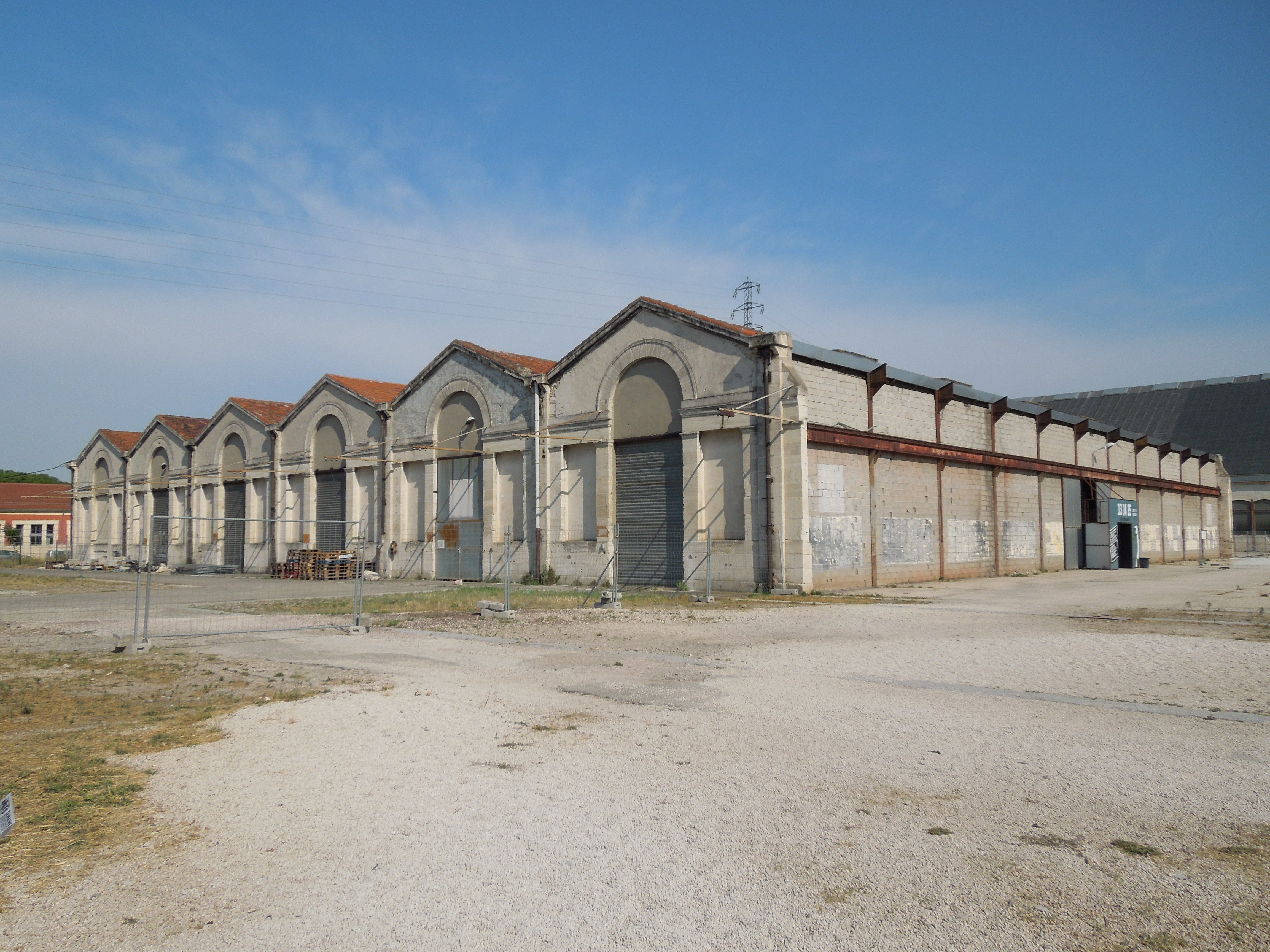 Former railway maintenance workshops (Ateliers SNCF) in Arles, southern France, used as exhibition space during the 2013 Rencontres d'Arles (photography festival)